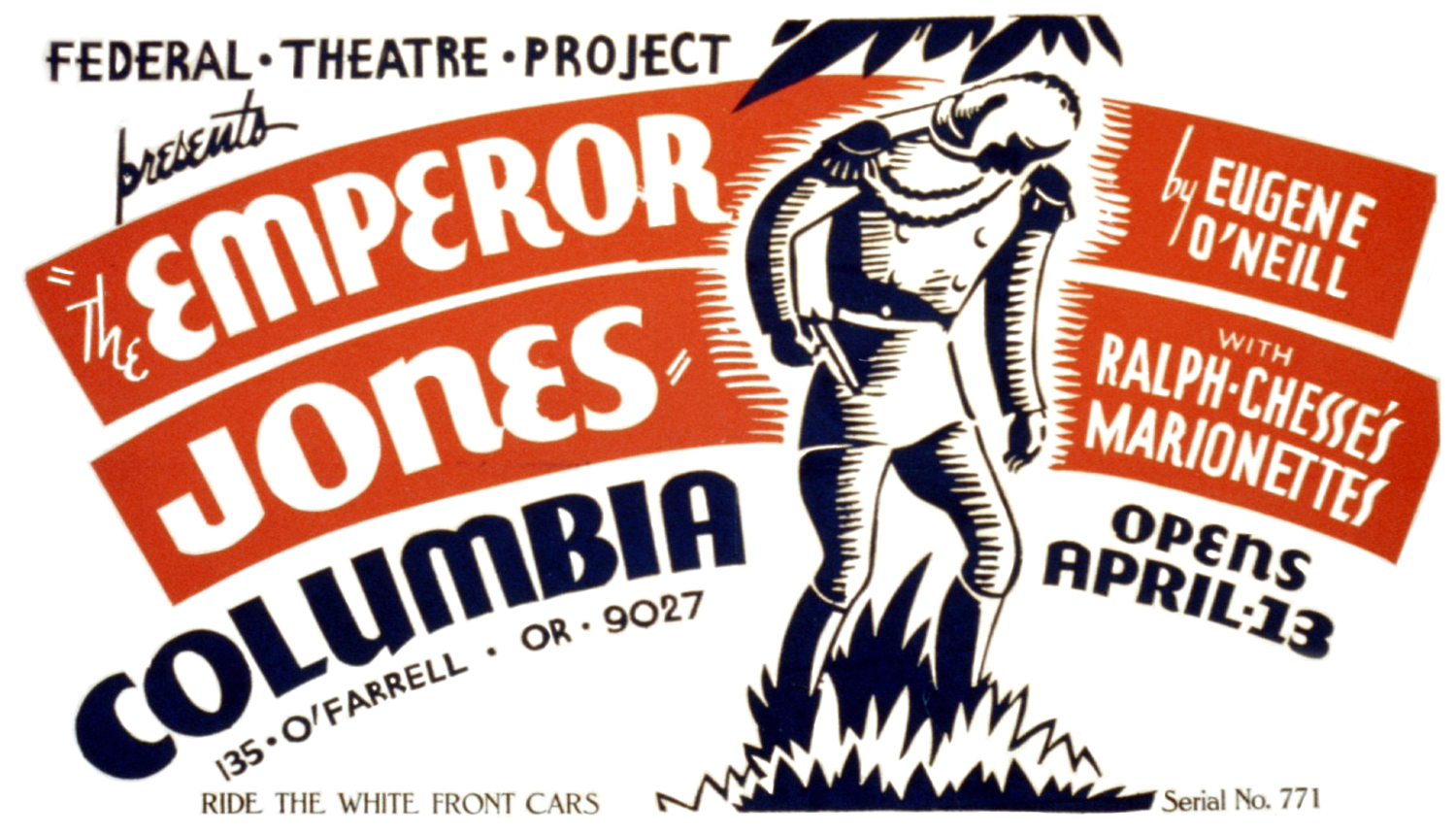 Poster for the Federal Theatre Project presentation of The Emperor Jones, with Ralph Chessé's marionettes